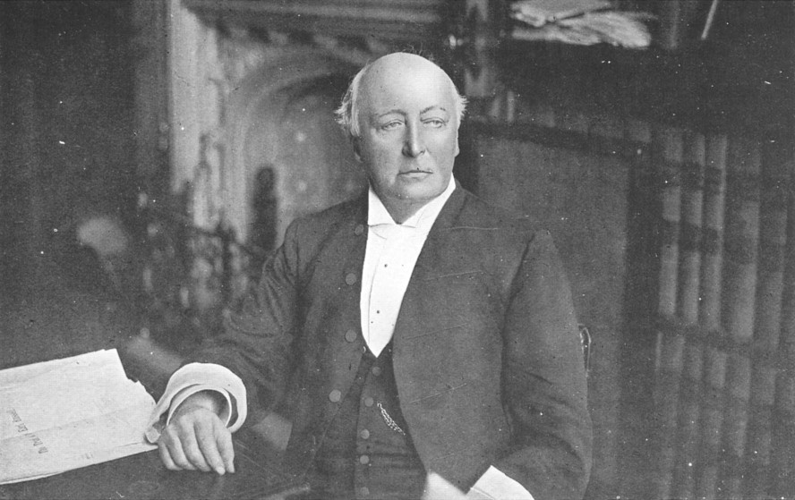 William Court Gully, Speaker of the British House of Commons, pictured in the Speaker's private apartments.